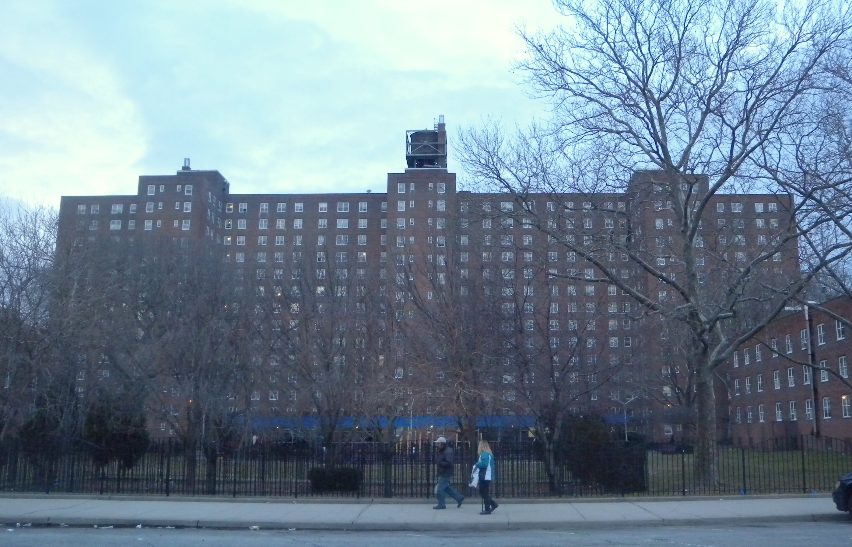 Looking northeast at big building of Red Hook Houses West on a mostly cloudy evening.